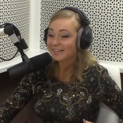 Ирина Скворцова here telling her story ... Irina Skvortsova (born 17 July, 1988) was a Russian bobsleigh racer who had a catastrophic accident training for the Sochi Olympics. After a long recovery she became a TV presenter